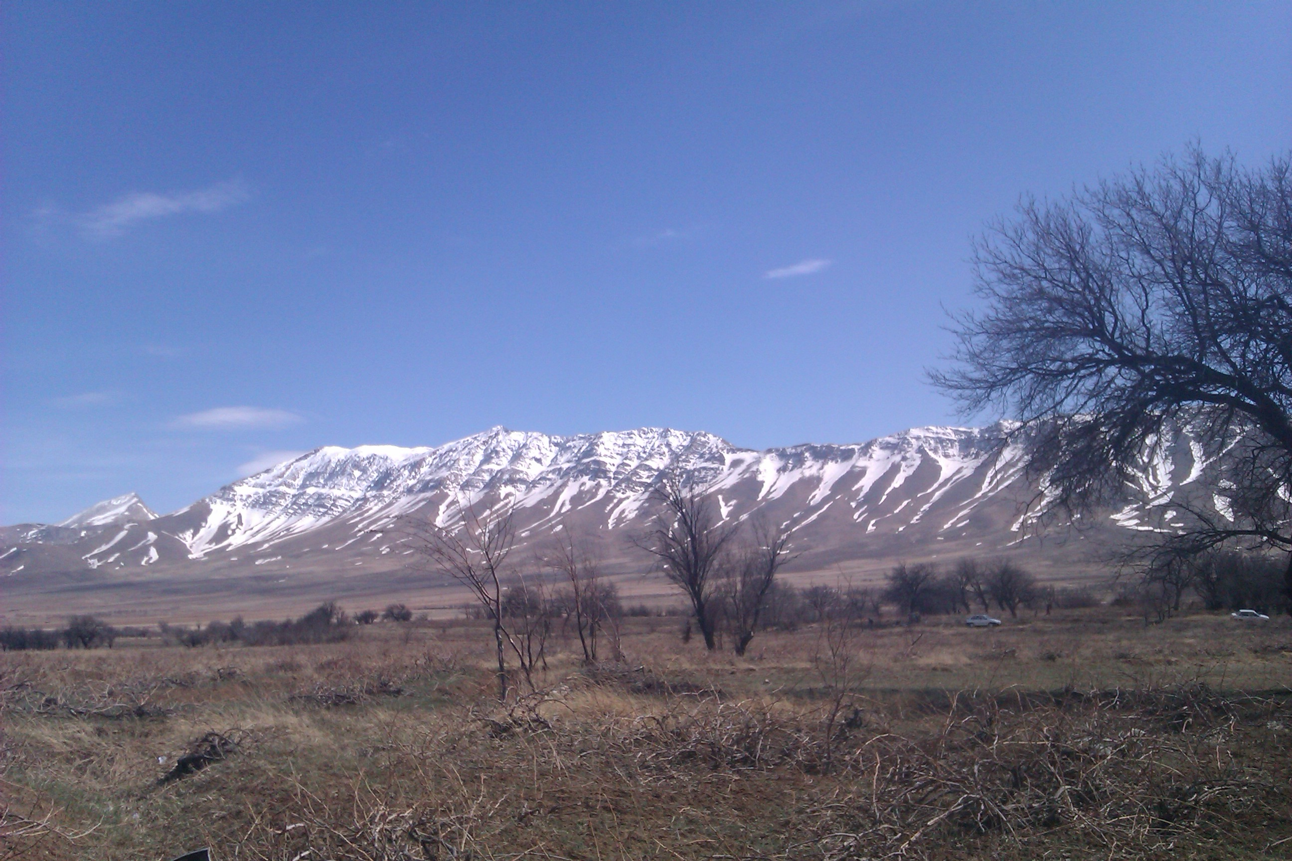 farajabad روستایی زیبا در استان مرکزی شهرستان خمین